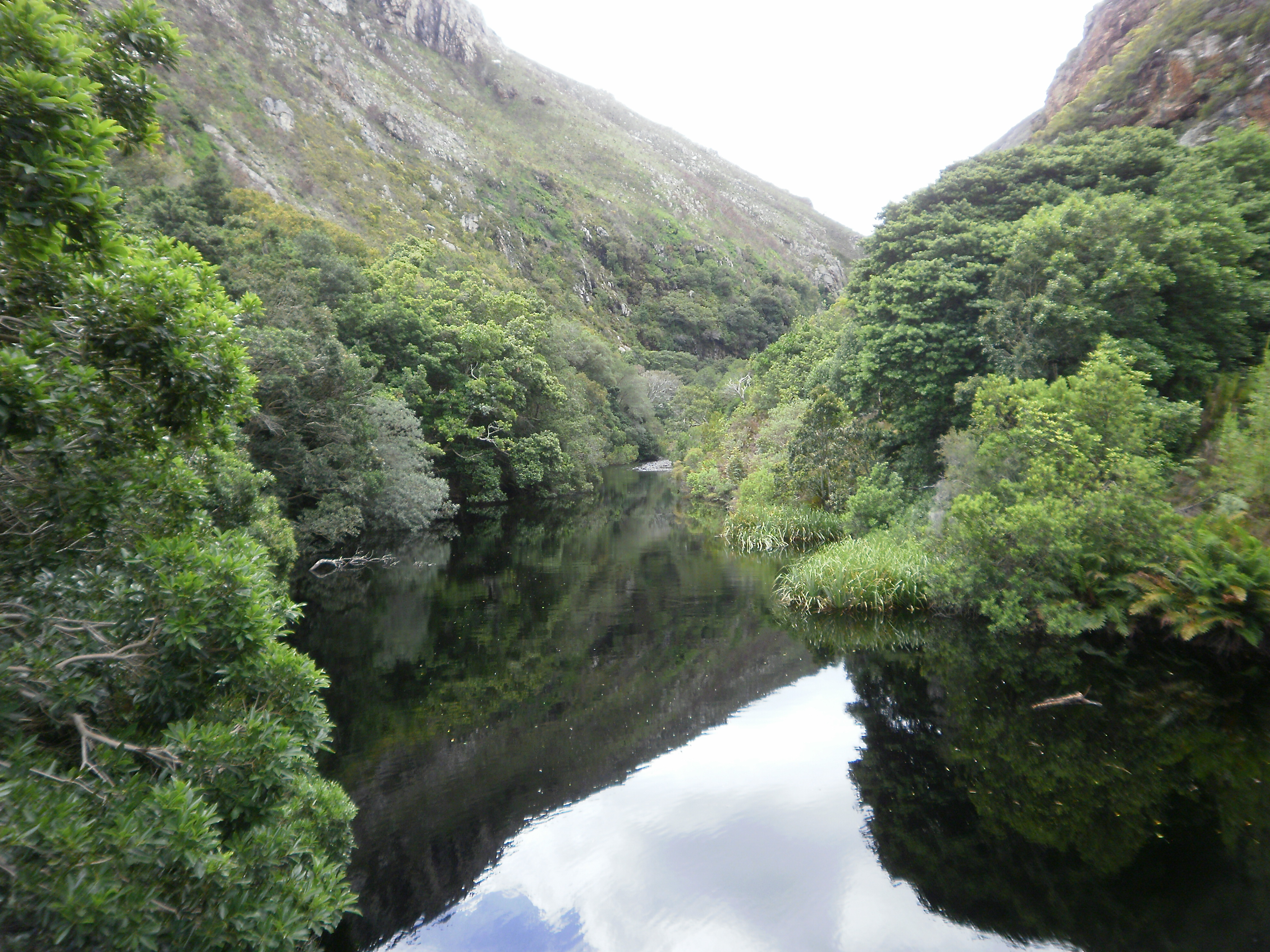 Indigenous afrotemperate forest growing in a river valley. Western Cape South Africa.